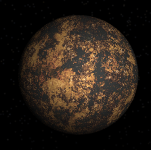 Hypothetical visualisation of LHS 3844 b by NASA